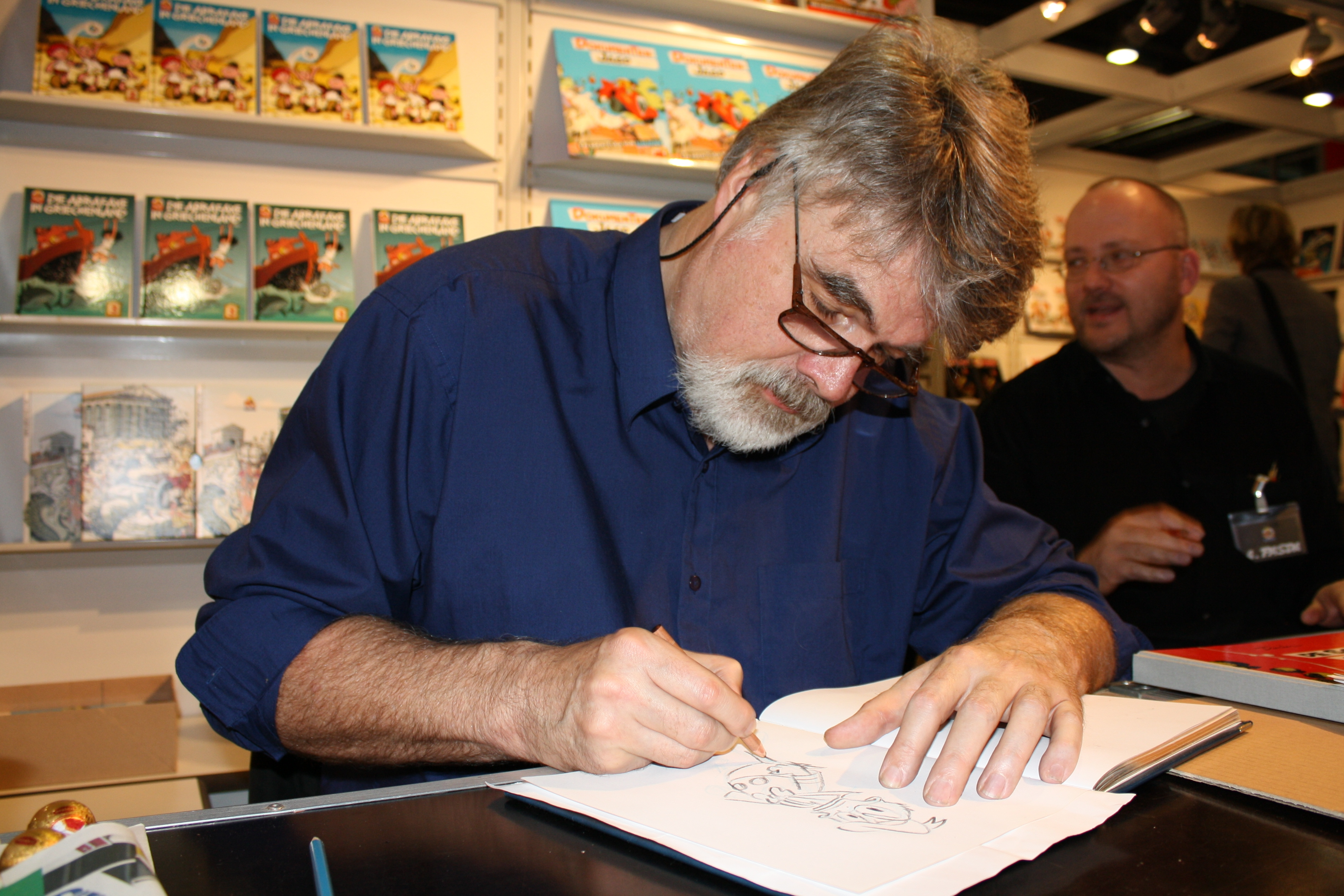 Disney Comics artist Daan Jippes signing and drawing Donald Duck at the Frankfurt Book Fair. October 17, 2009. Attribute to Jano Rohleder when used under the CC license.